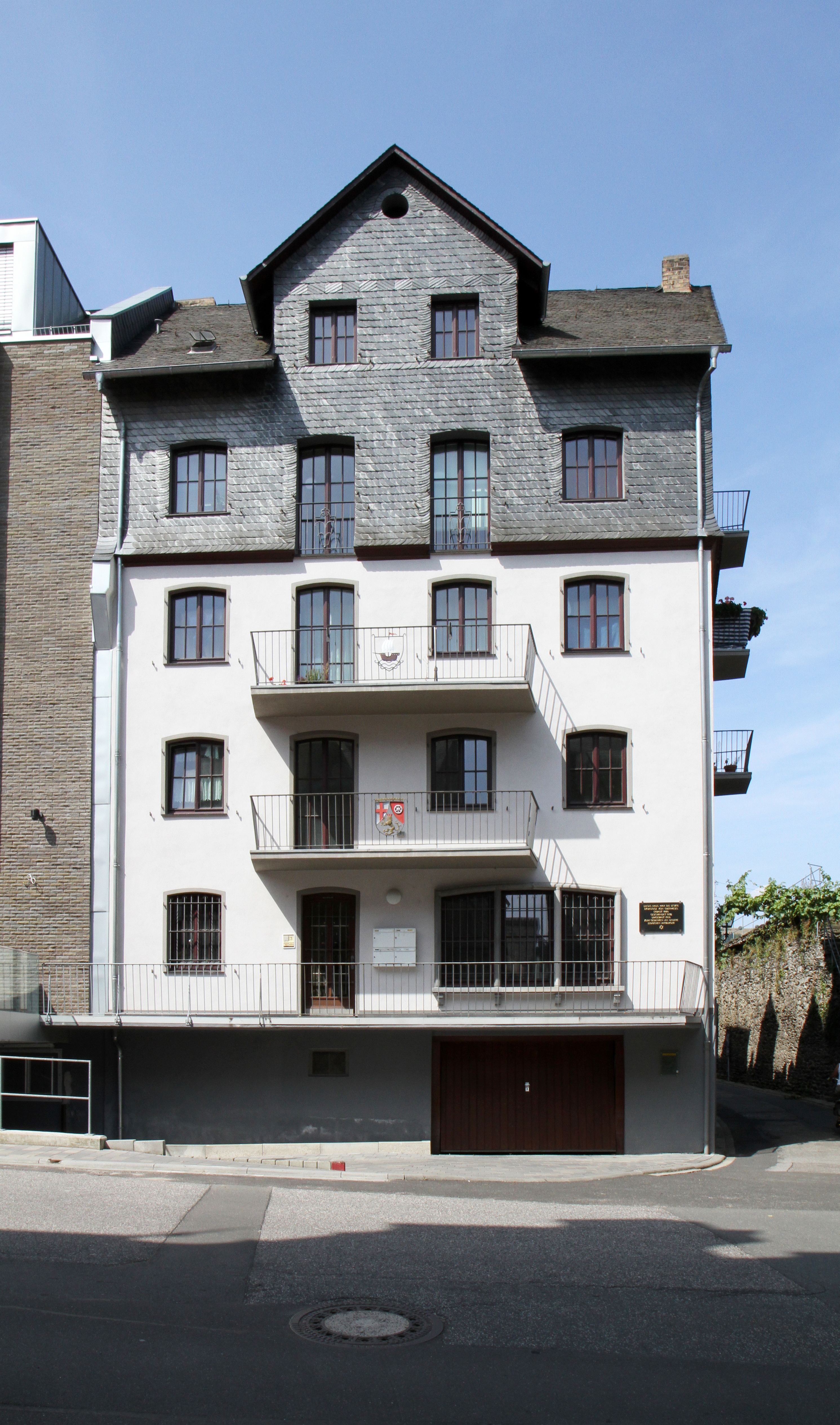 Former Synagoge in OberweselOberwesel, Rhine Valley/Germany.